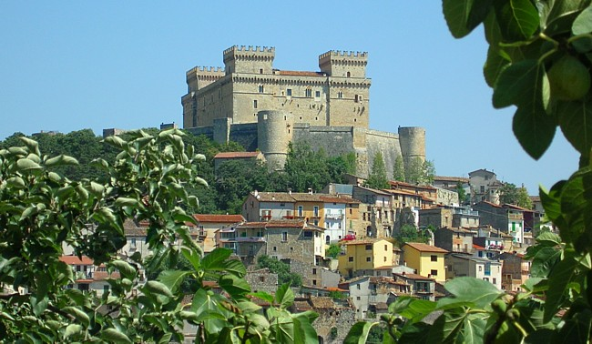 Panoramic view of Piccolomini castle, Celano, Abruzzo, Italy